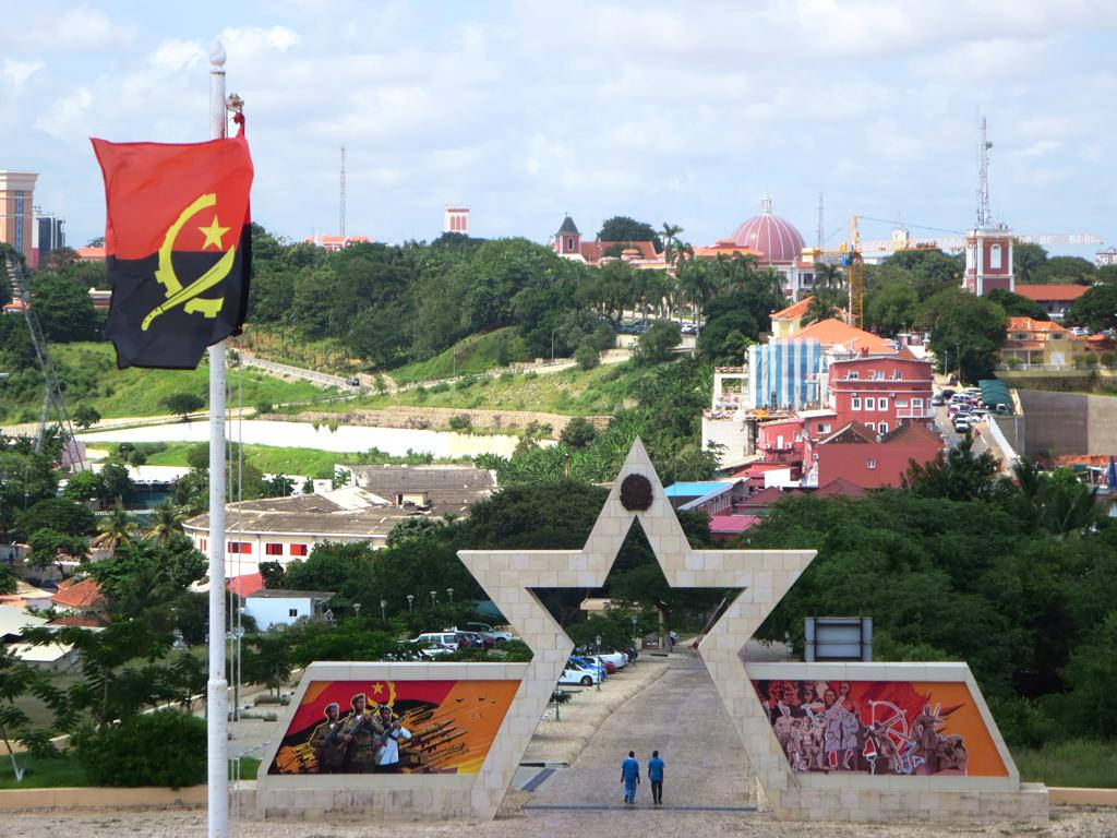 The Cidade Alta in Luanda, Angola, stretches along a ridge lined by pink colonial buildings including the president's and archbishop's palaces.